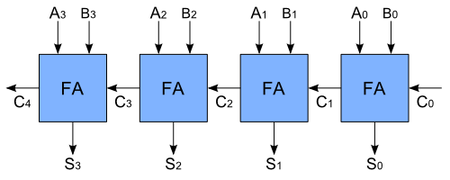 PNG from: 4-bit_ripple_carry_adder-2.svg